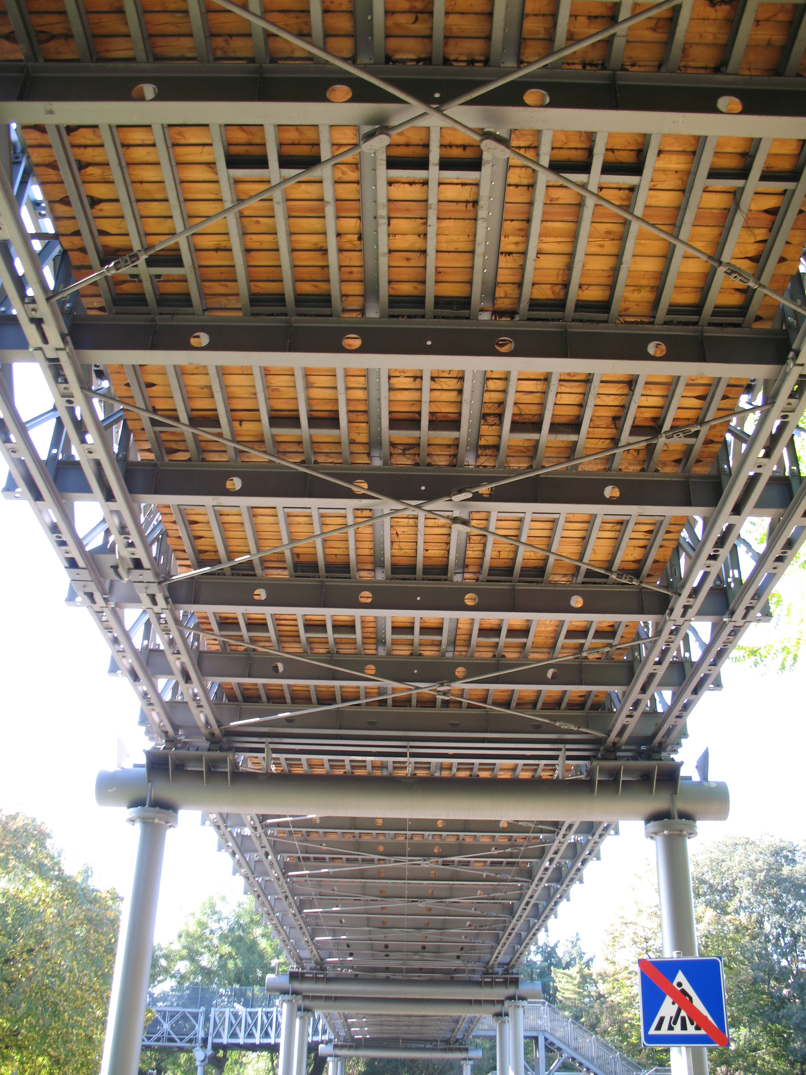 Ponte Bailey (Bailey bridge)